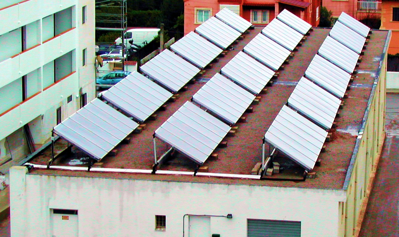 Solar collectors field used in a hotel sanitary heat water production, Mallorca.